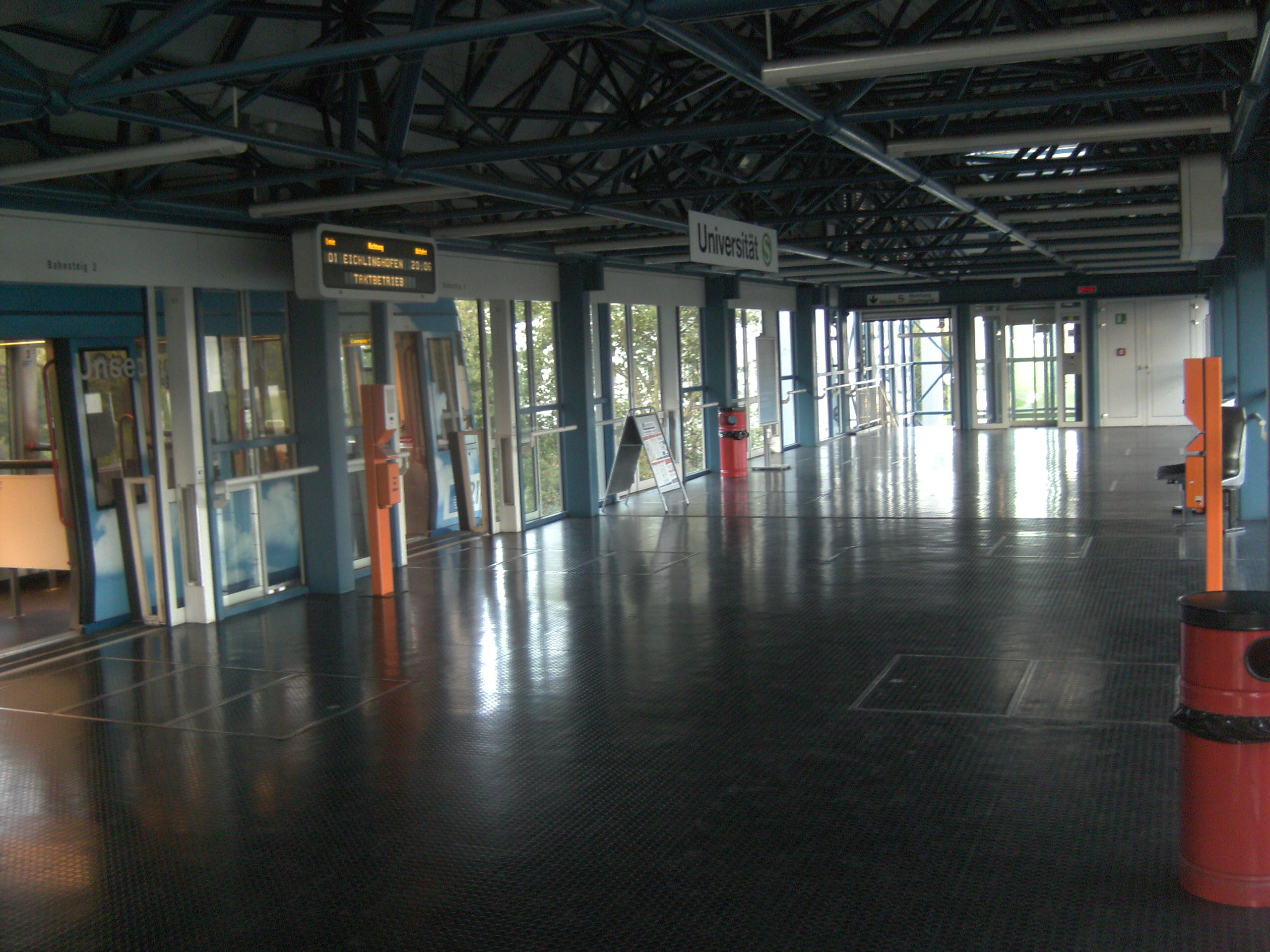 Innerview of the H-Bahn station "Universität (S)" (S is for suburban fast train)